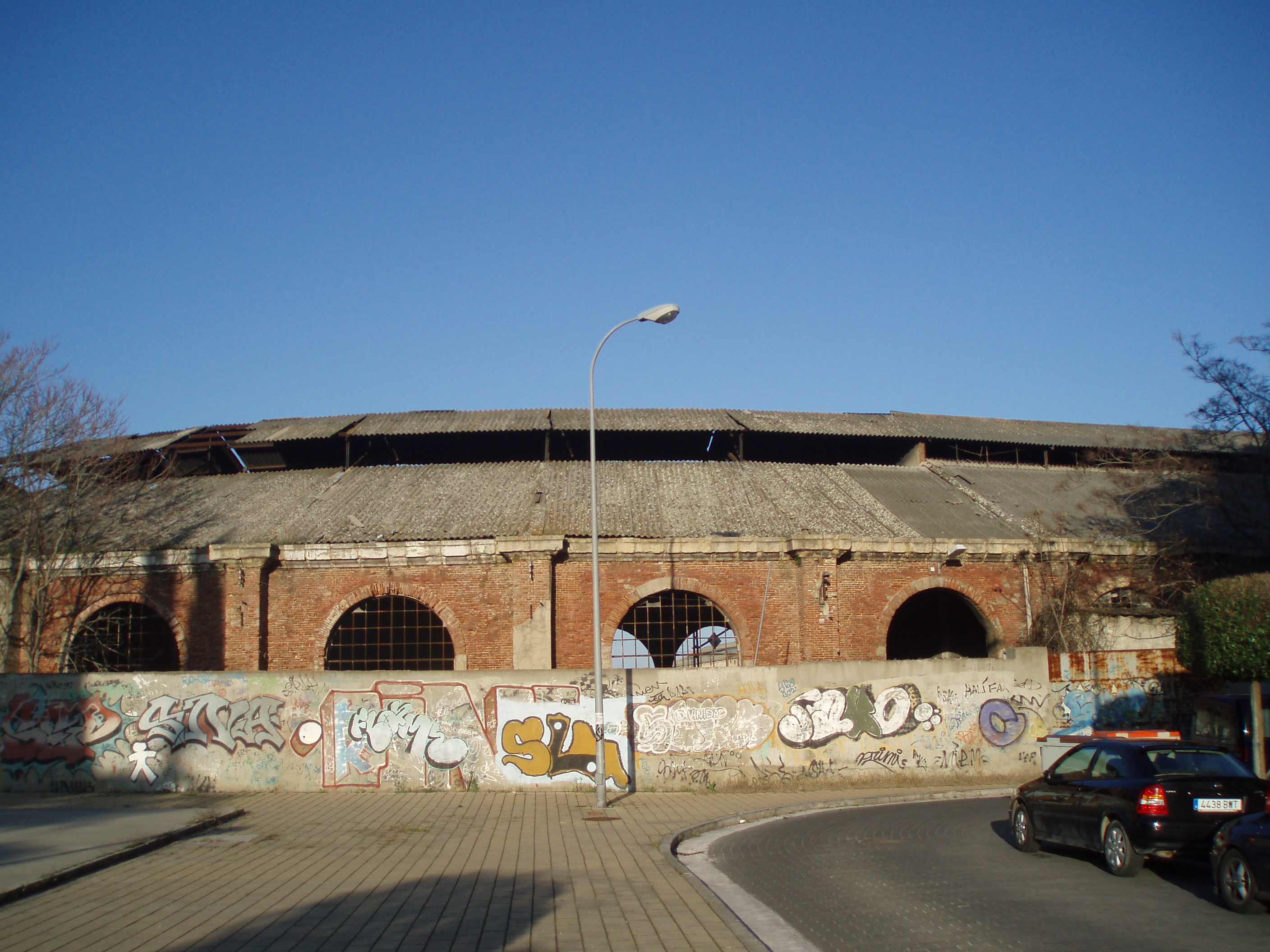 Outside of the Locomotive Deposit of Valladolid